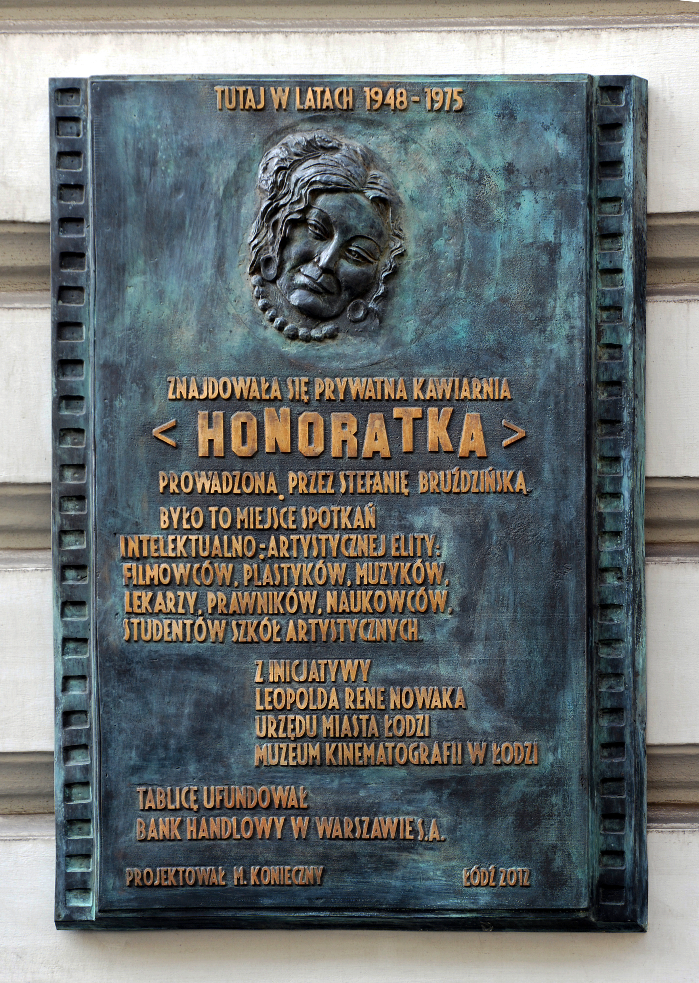 Plaque cafe 'Honoratka', Łódź 2 Moniuszki Street